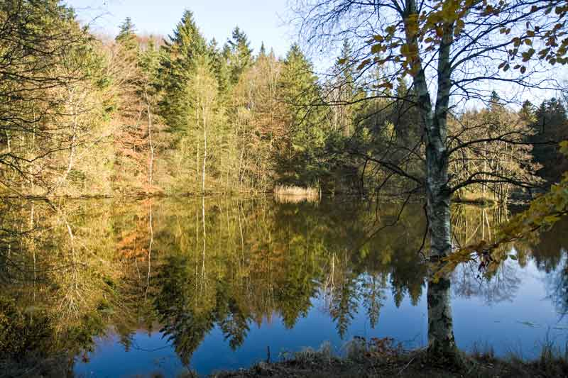 Tolne Skov, small lake, Vendsyssel, Denmark